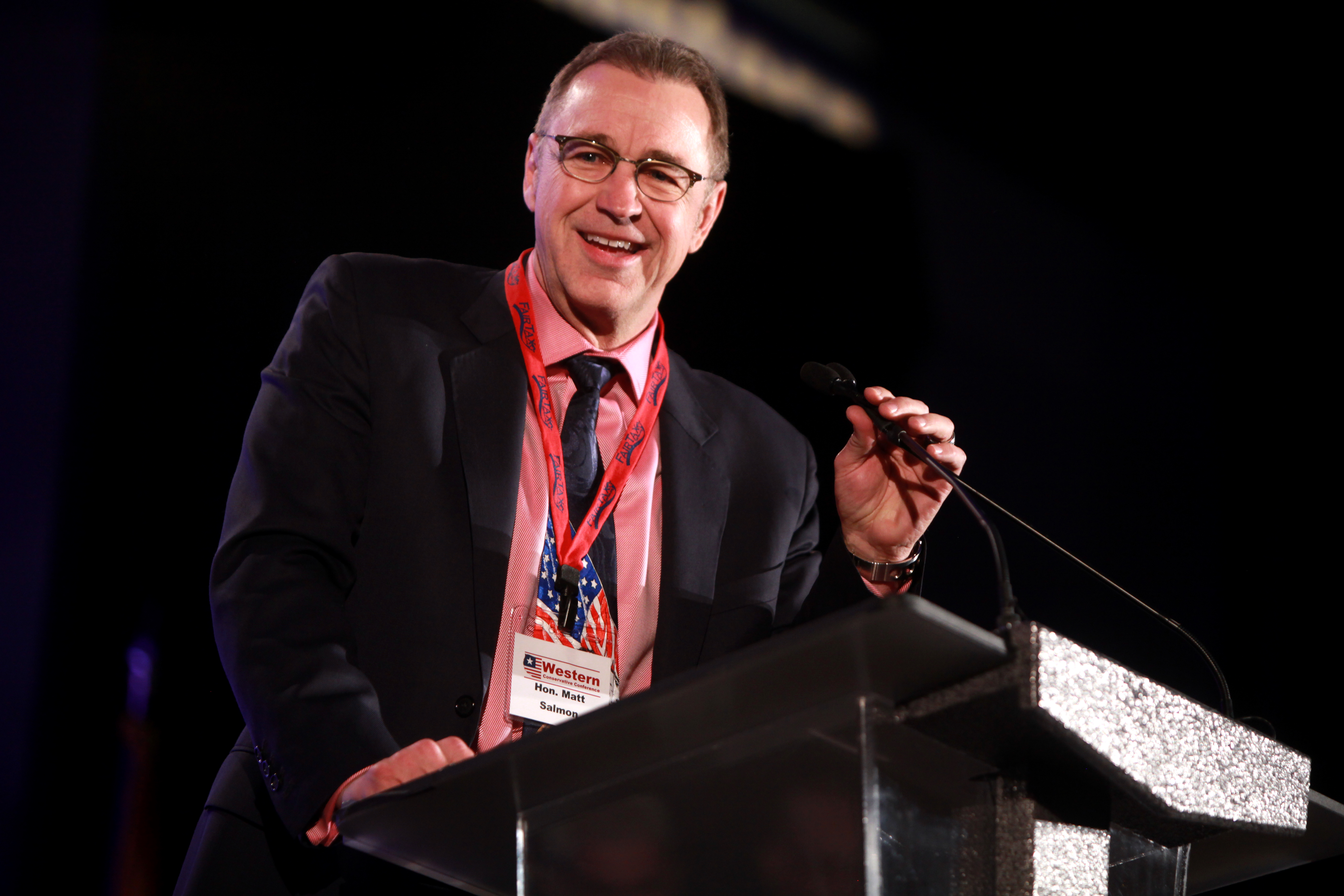 Congressman Matt Salmon speaking at the 2014 Western Conservative Conference at the Phoenix Convention Center in Phoenix, Arizona. Copyright © Western Center for Journalism/Gage Skidmore.